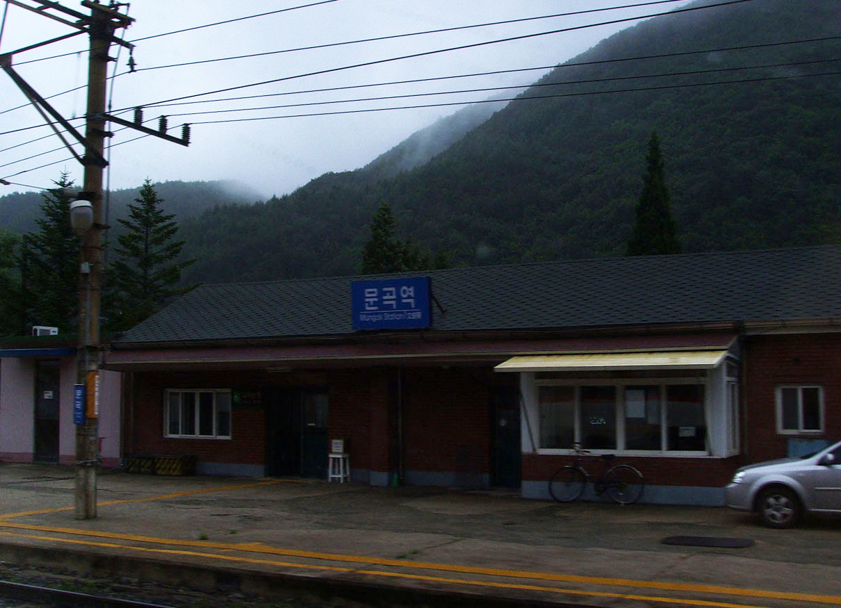 Taebaek Line Mungok Station